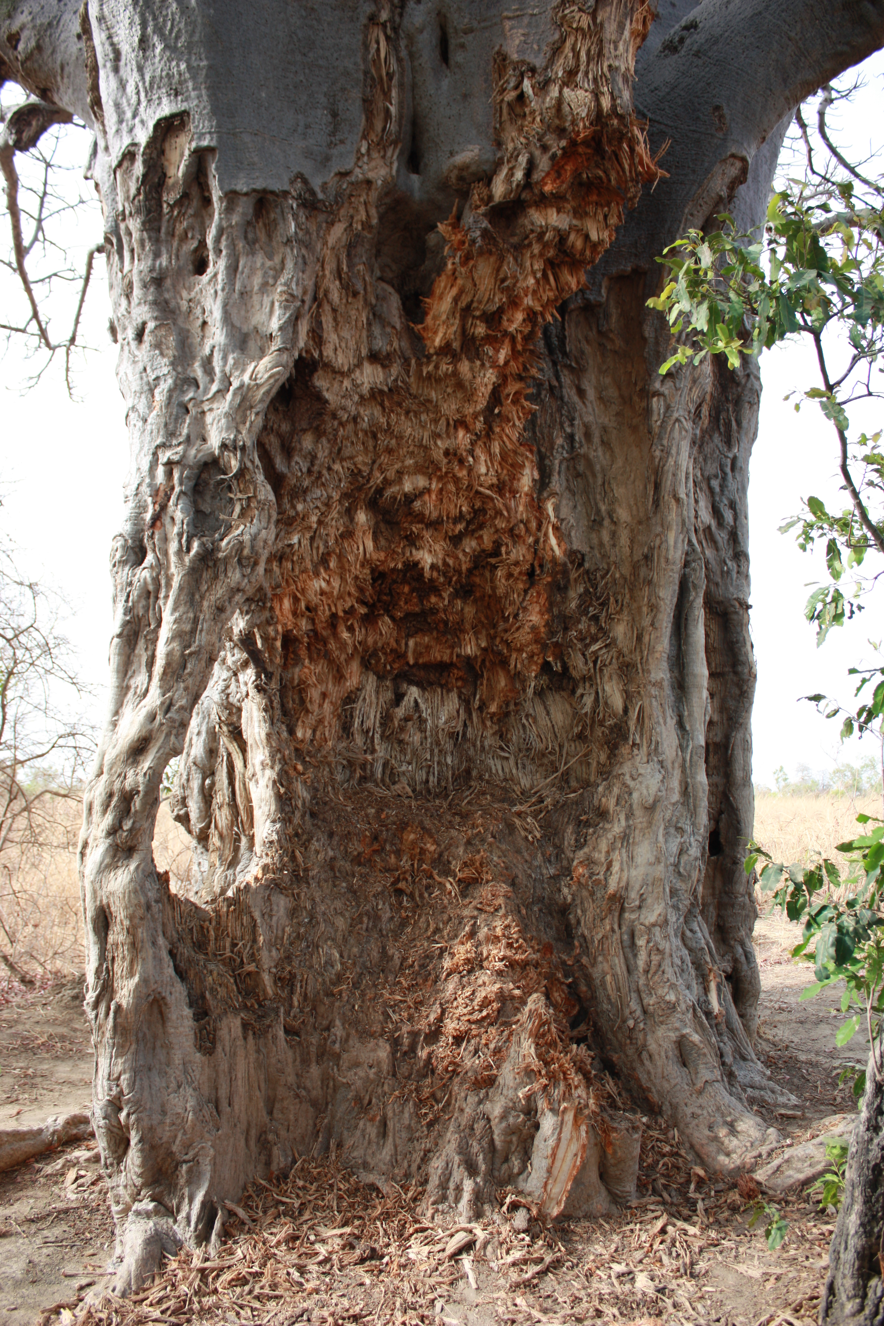 Baobab, (Adansonia digitata) damaged by elephants in Pama Reserve, Burkina Faso